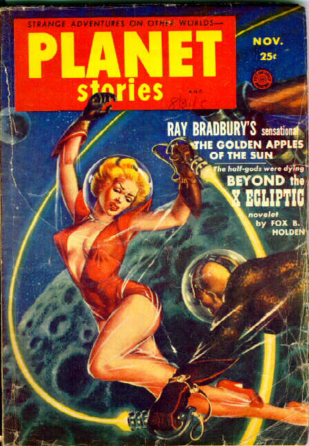 Cover of November 1953 issue of Planet Stories. Artist is Kelly Freas. Copyright was either Freas, or more likely Fiction House, who published the magazine.